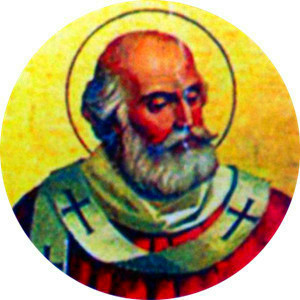 Portait of Pope Paul I in the Basilica of Saint Paul Outside the Walls, Rome